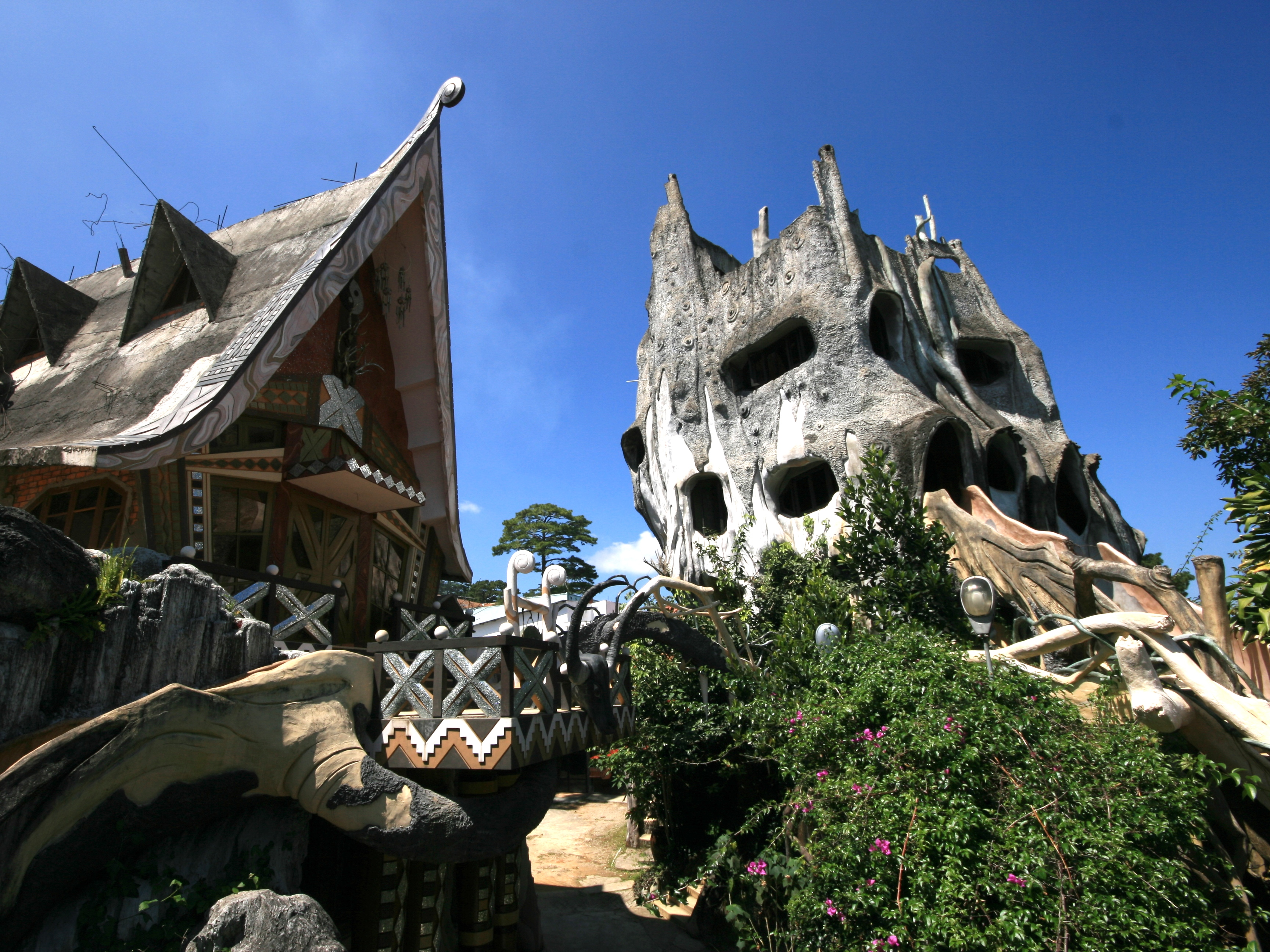 Hang Nga guesthouse